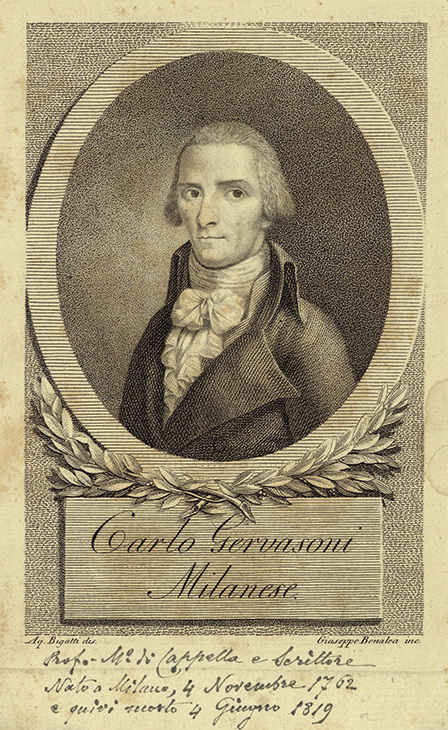 Portrait of Carlo Gervasoni, historian (1762-1819), before 1819.